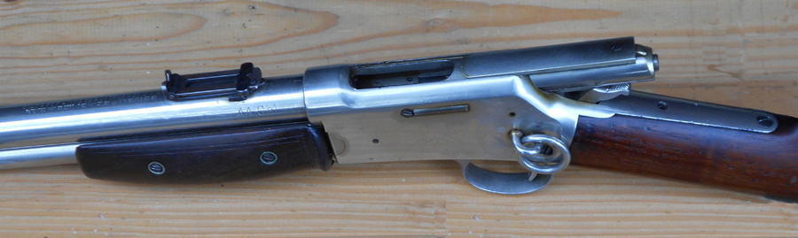 Colt Lightning Carbine Receiver